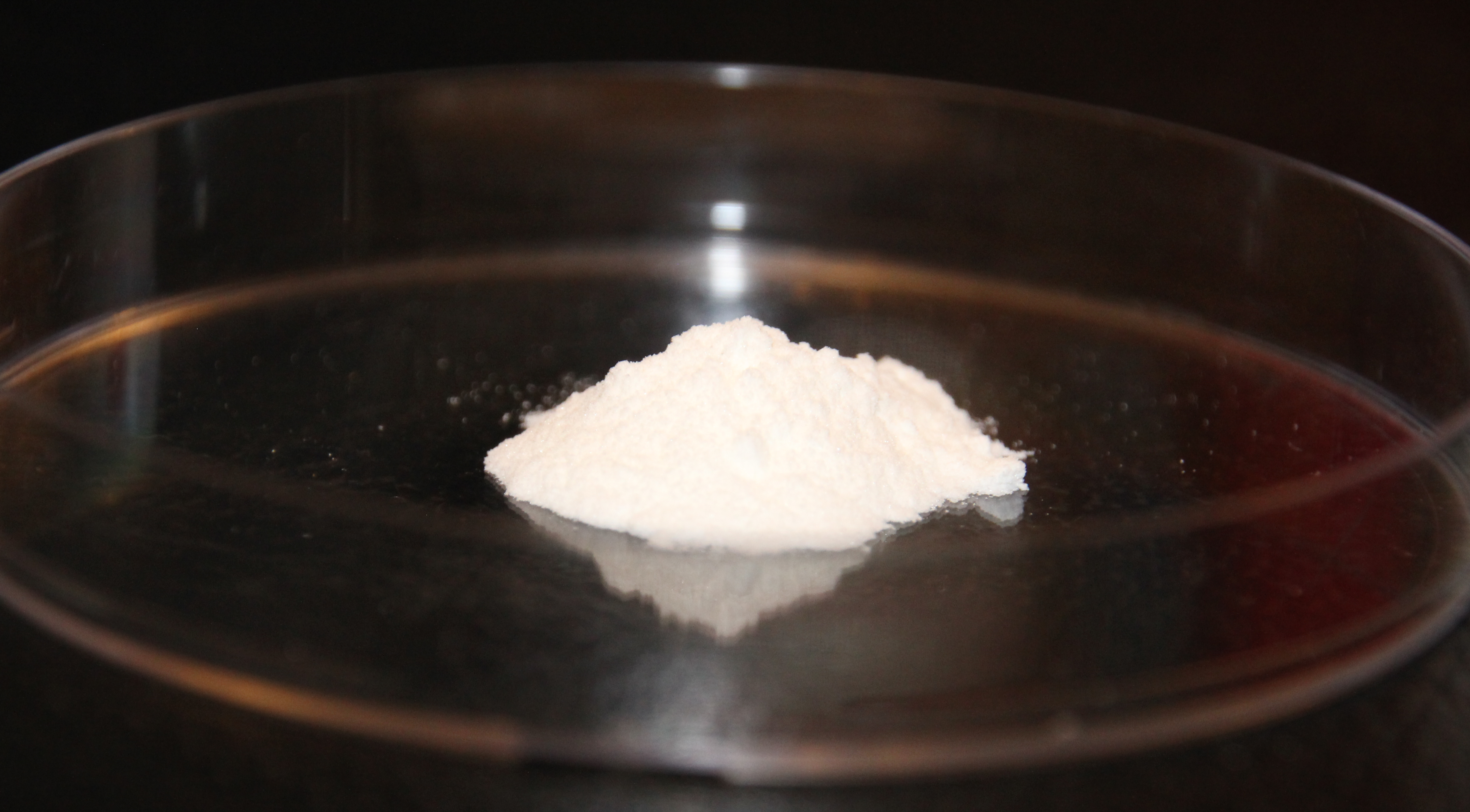 Sample of solid phenolphthalein